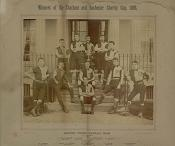 1892-93 Charity Cup Winners